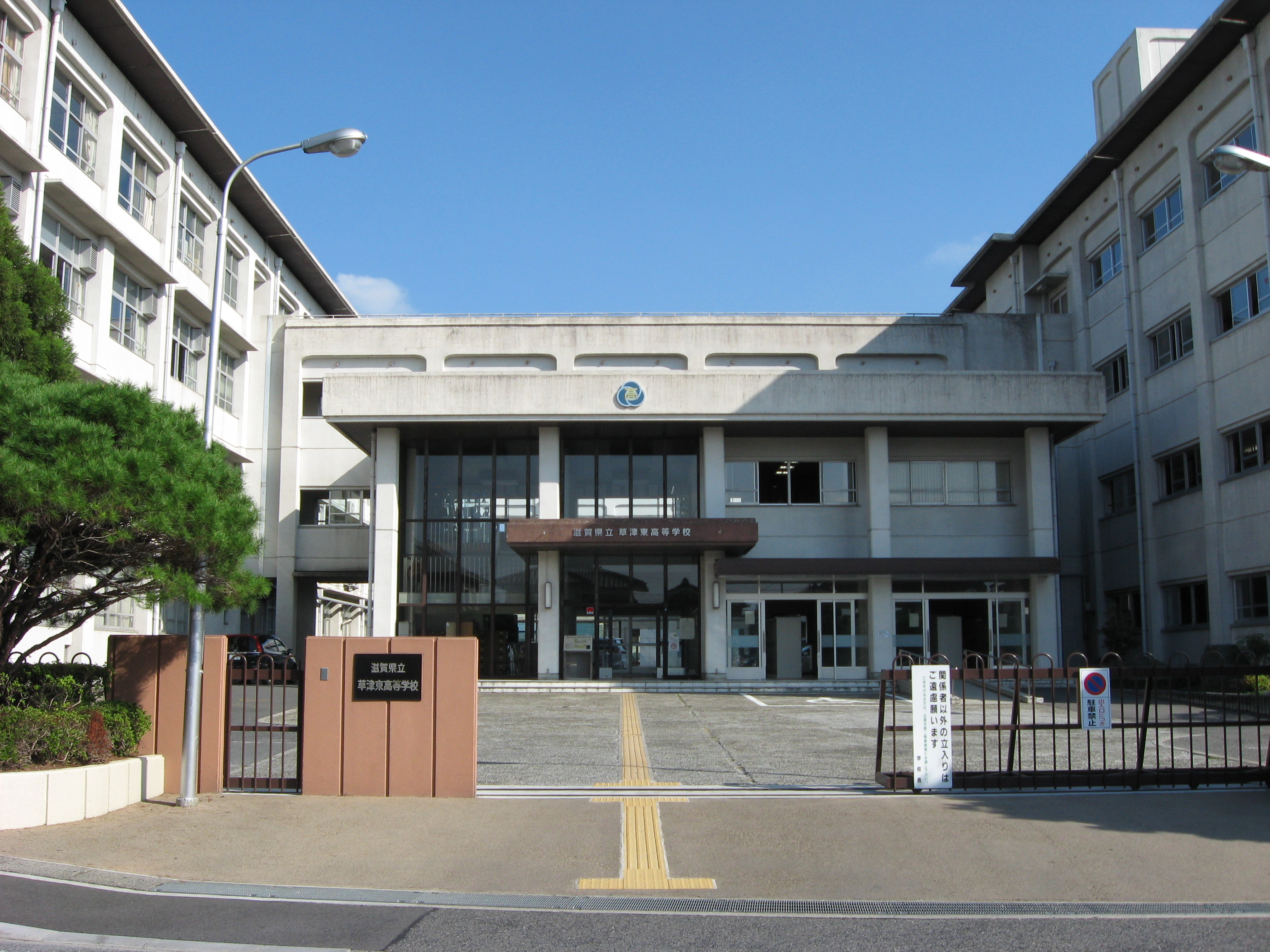 Shiga Prefectural Kusatsu Higashi High School（滋賀県立草津東高等学校）